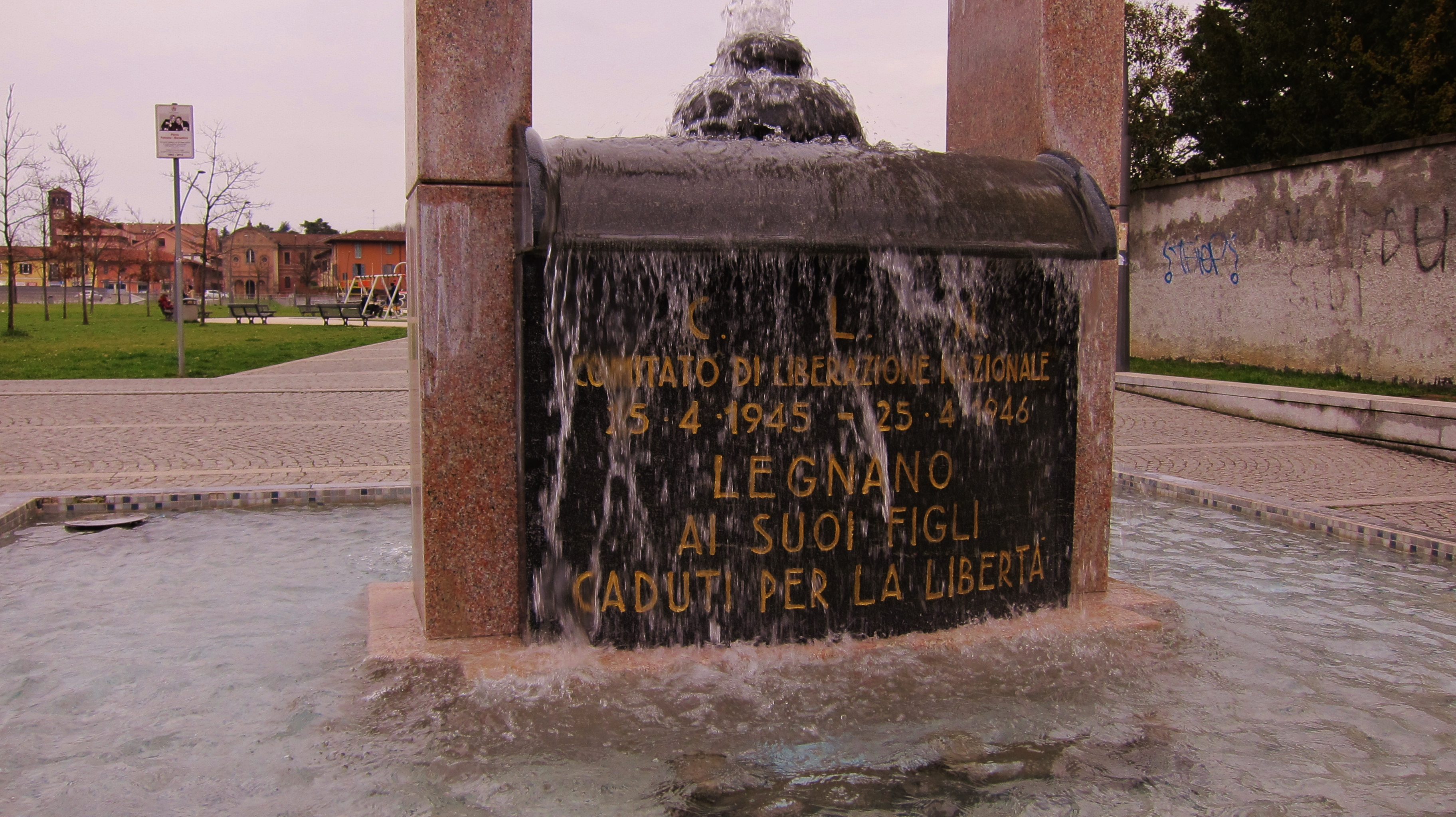 Detail of the fountain of the National Liberation Committee built as a memorial of the people from Legnano who fought and died for the liberation of Italy from fascism. The inscription says "Legnano, to its children who died for freedom ". The fountain is located in Largo Franco Tosi in Legnano.